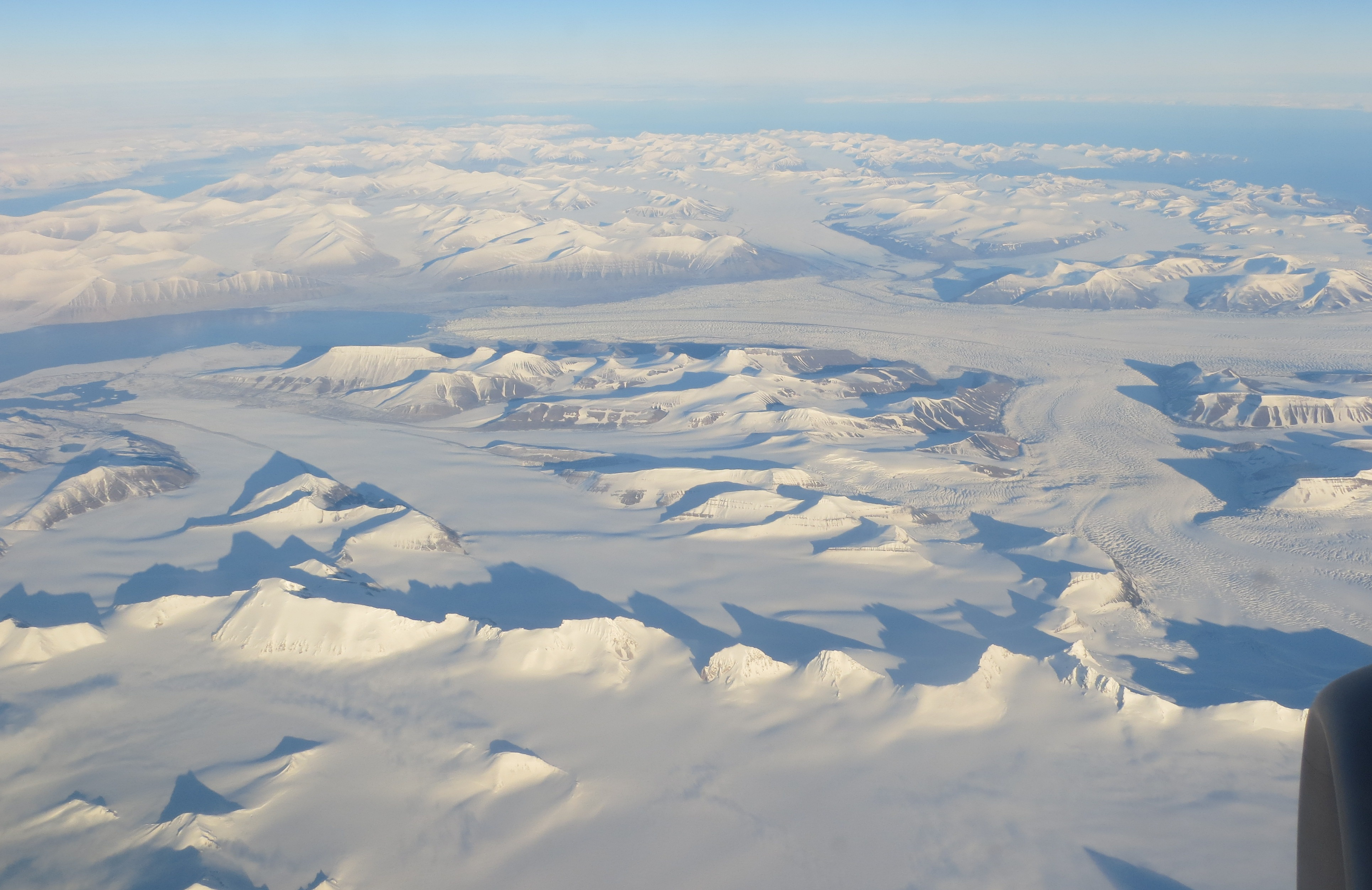 Aerial view of Wedel Jarlsberg Land, southwestern Spitsbergen, Norway. Photo from the west.